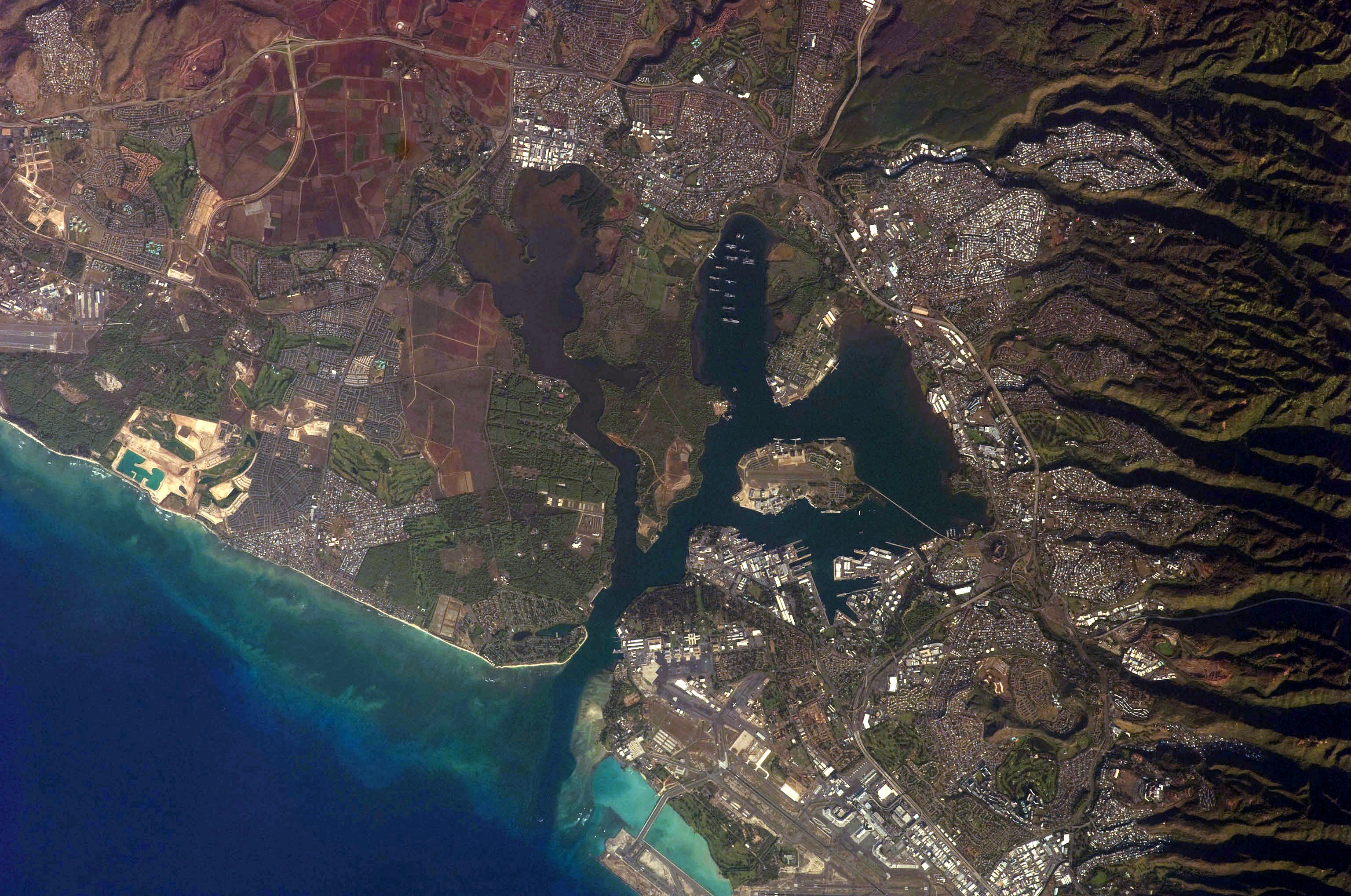 This detailed astronaut photograph illustrates the southern coastline of the Hawaiian island Oahu, including Pearl Harbour. The urban areas of Waipahu, Pearl City, and Aliamanu border the harbour to the north-west, north, and east. The built-up areas, recognizable by linear streets and white rooftops, contrast sharply with the reddish volcanic soils and green vegetation on the surrounding hills. ISS Crew Earth Observations: ISS021-E-15710IdentificationMissionISS021 (Expedition 21)RollEFrame15710Country or Geographic NameUSA-HAWAIIFeaturesPEARL HARBOR, PEARL CITY, WAIPAHUCenter Point Latitude21.4° NCenter Point Longitude-158.0° ECameraCamera Tilt8°Camera Focal Length400 mmCameraNikon D2XsFilm4288 x 2848 pixel CMOS sensor, RGBG imager color filter.QualityPercentage of Cloud Cover0-10%Nadir What is Nadir?Date2009-10-27Time17:57:32Nadir Point Latitude21.5° NNadir Point Longitude-157.6° ENadir to Photo Center DirectionWestSun Azimuth113°Spacecraft Altitude185 nautical miles (343 km)Sun Elevation Angle18°Orbit Number2683